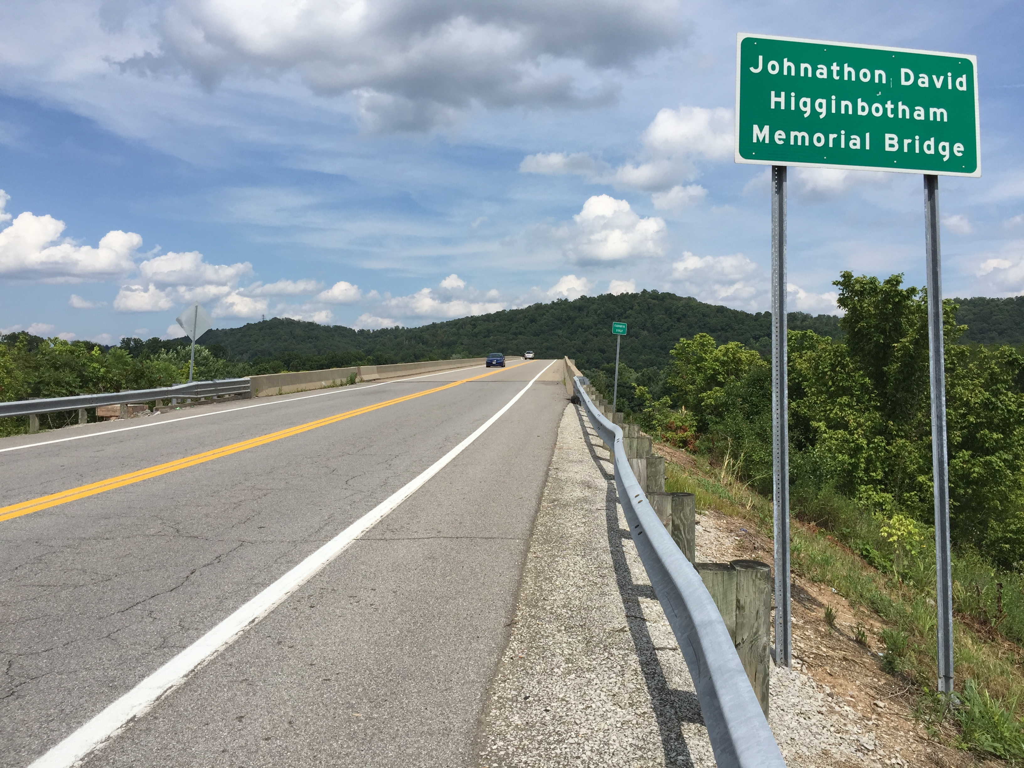 View east along West Virginia State Route 869 (Lower Buffalo Bridge/Johnathon David Higginbotham Memorial Bridge) crossing the Kanawha River in Fraziers Bottom, Putnam County, West Virginia